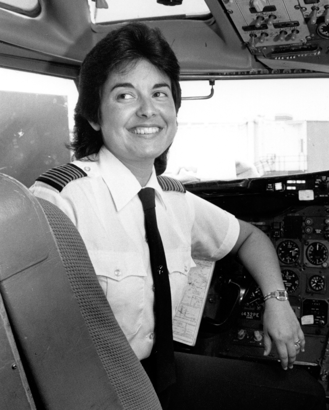 Beverly Lynn Burns on the flight deck of a People Express Boeing 737, photographed by her husband Robert Burns.